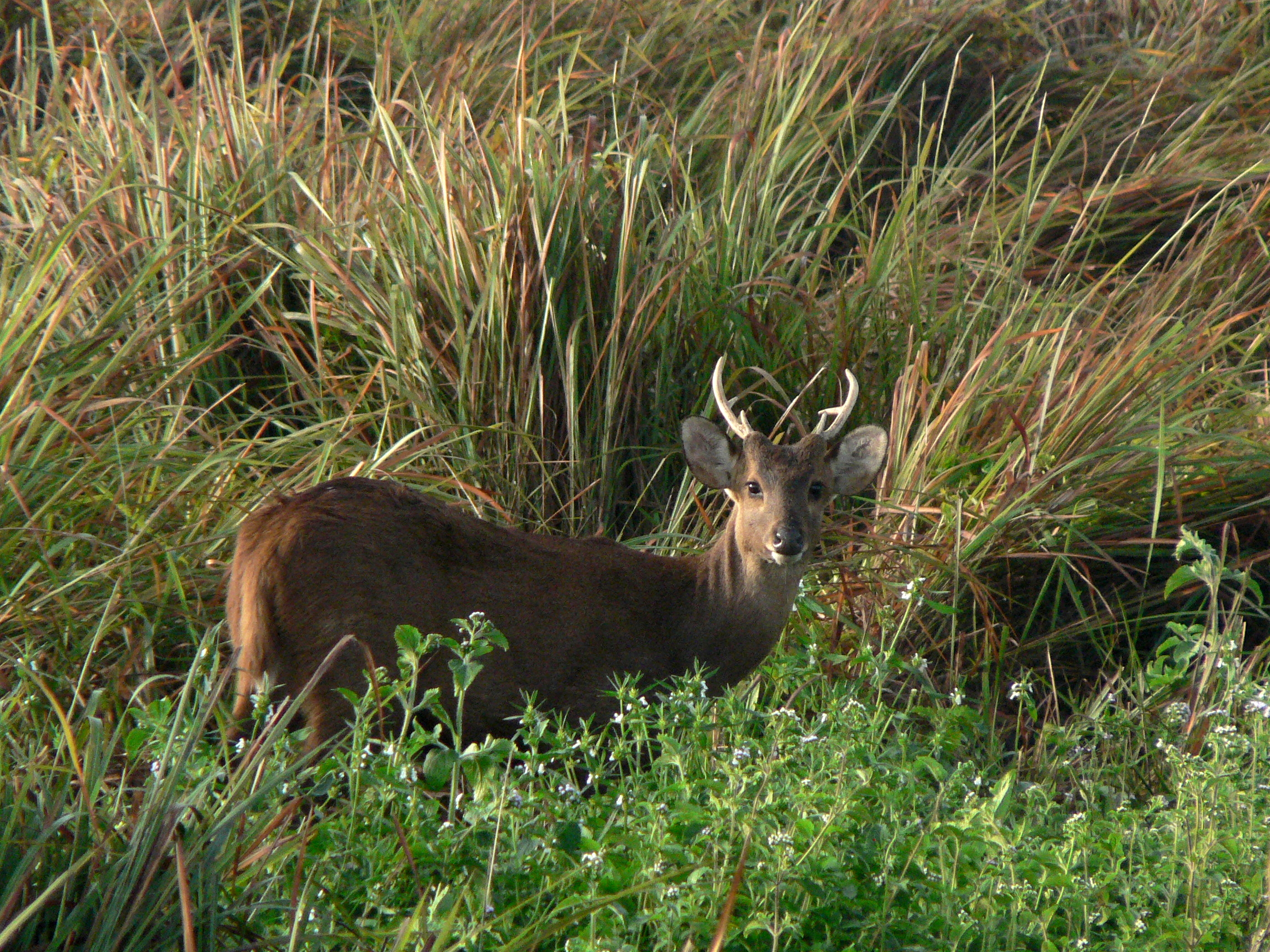 Hog deer in tall grasslands of the Terai, Kaziranga, Assam